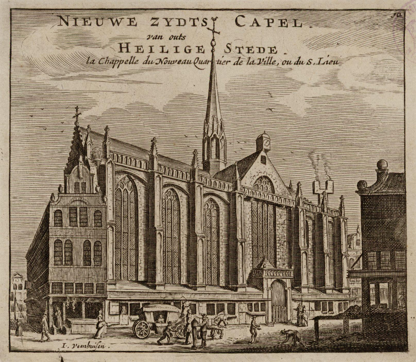 Jan Veenhuysen. Nieuwezijds Kapel, Amsterdam, seen from the Kalverstraat. 1664-1665. Etching. Amsterdam, Stadsarchief Amsterdam (inv.nr. 010097002811).